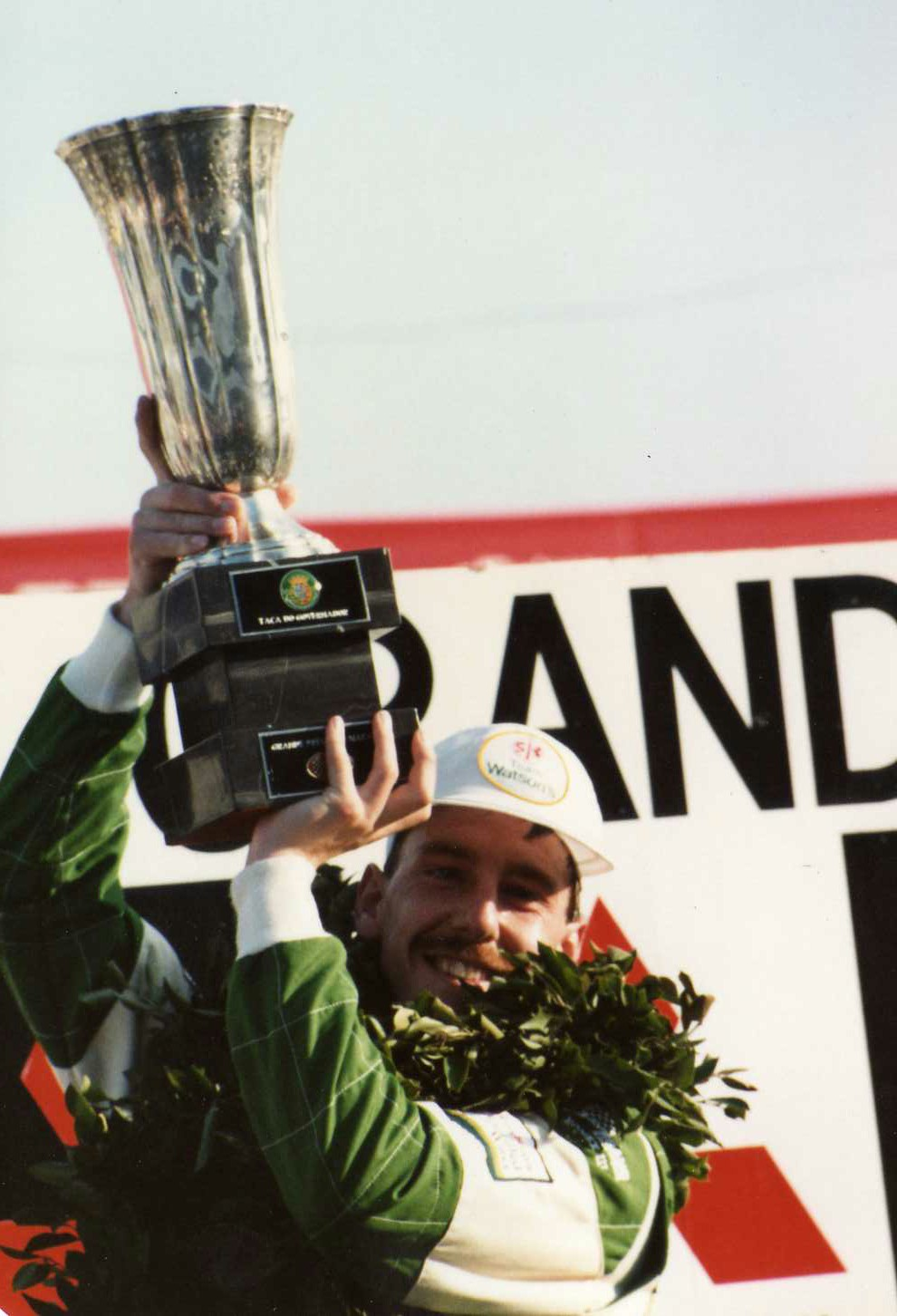 Andy Wallace - winner of Macau GP 1986